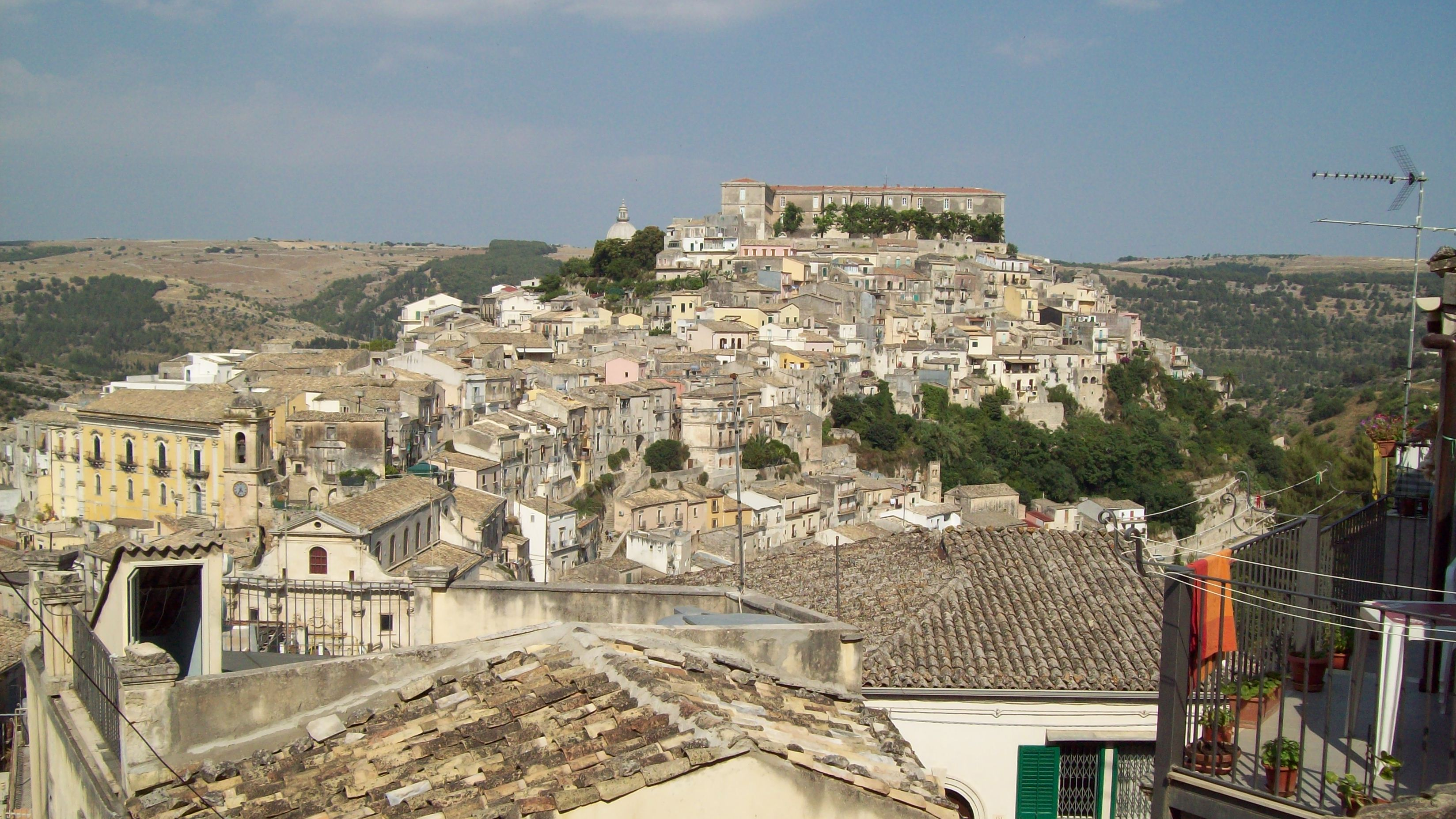 hill of ibla as seen from ragusa superiore